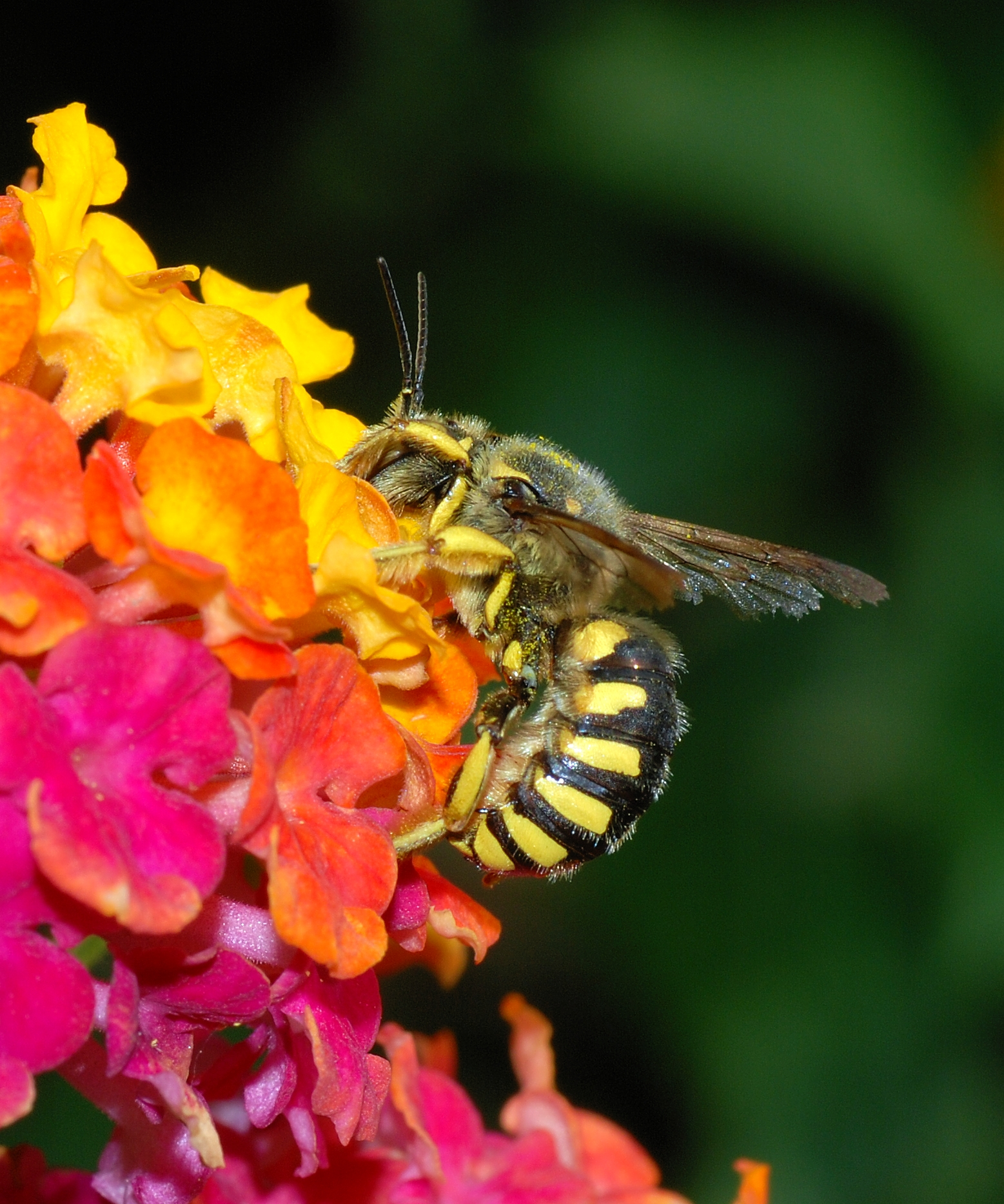 Solitary bee (Anthidium florentinum)